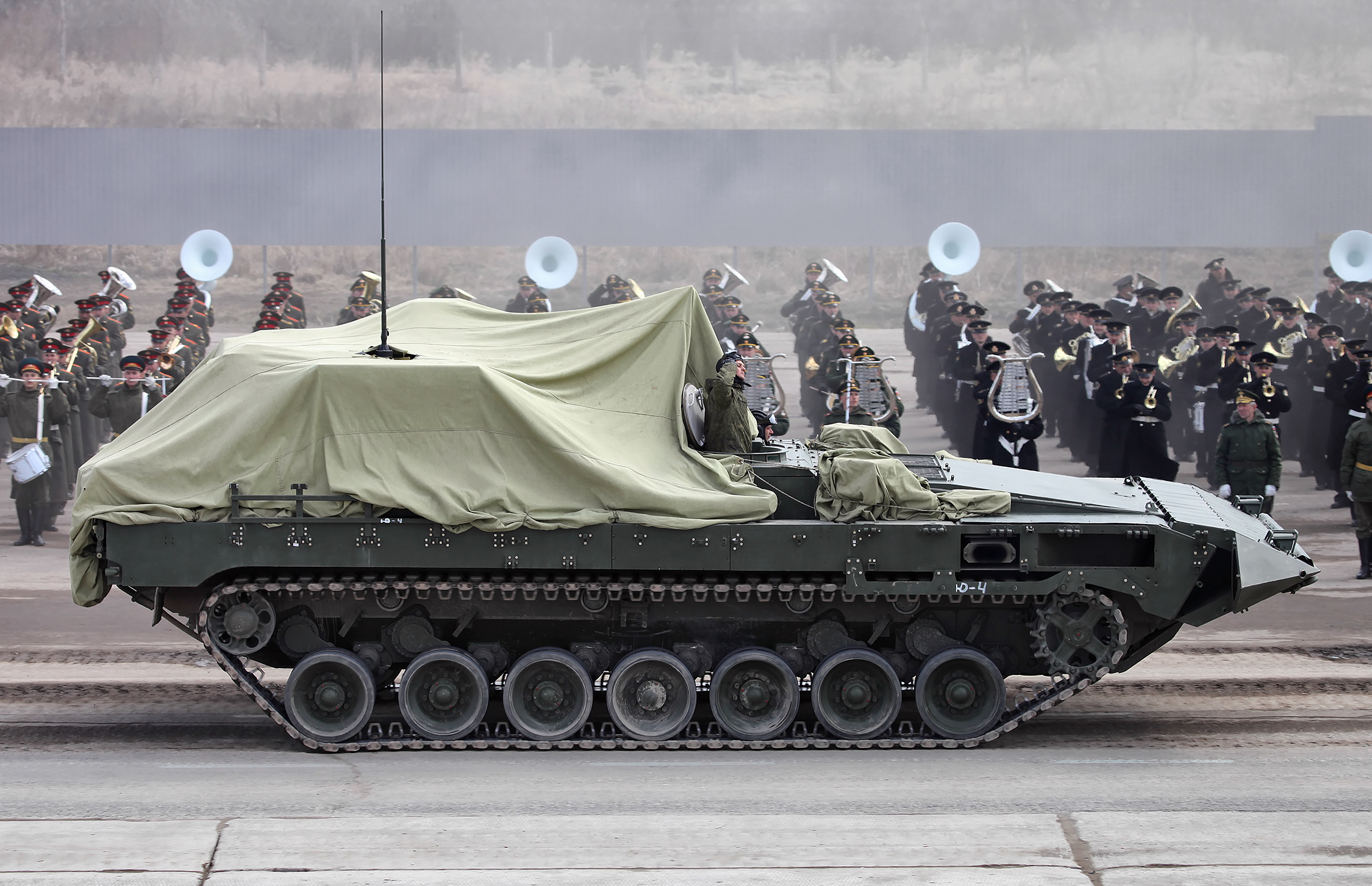 Heavy IFV T-15 object 149 Armata (during the first open rehearsal in Alabino)